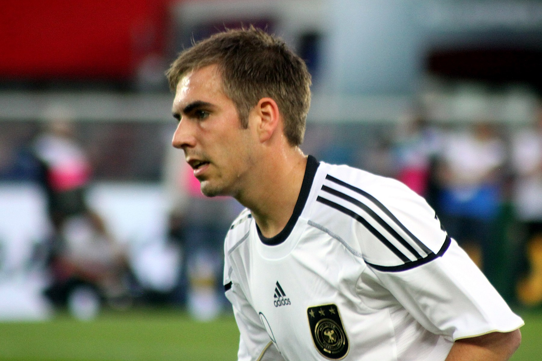 Philipp Lahm (FC Bayern Munich), german national football team - OpenStreetMap(Info)